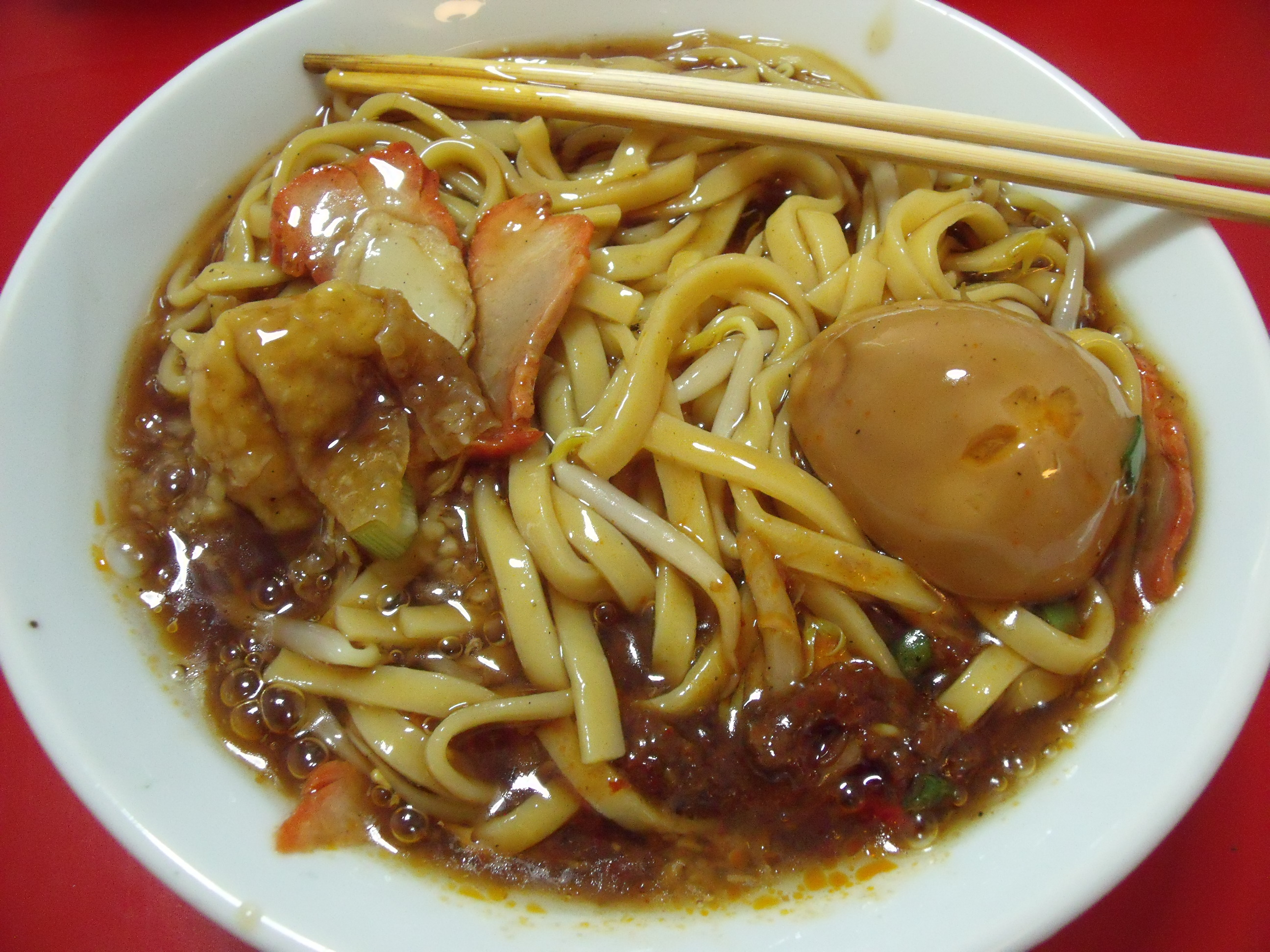 Lor mee sold in Bukit Batok, Sinagpore.